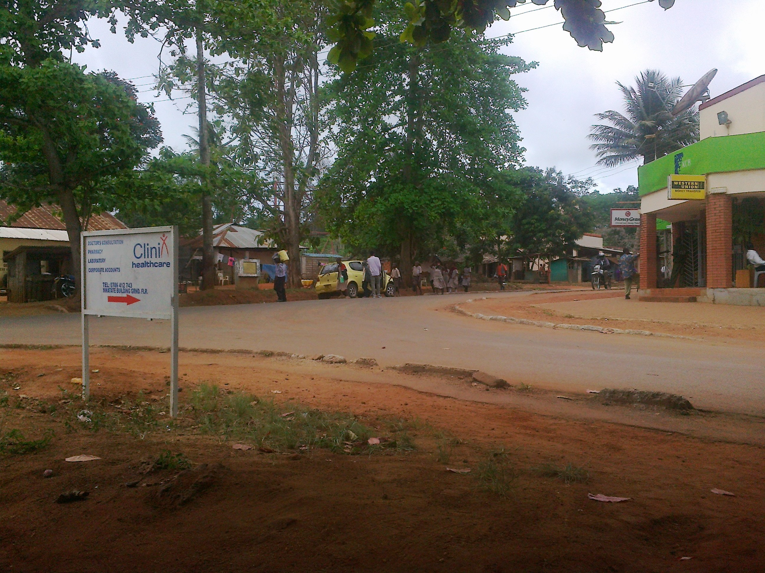 This is a little shot of an important street of Kwale